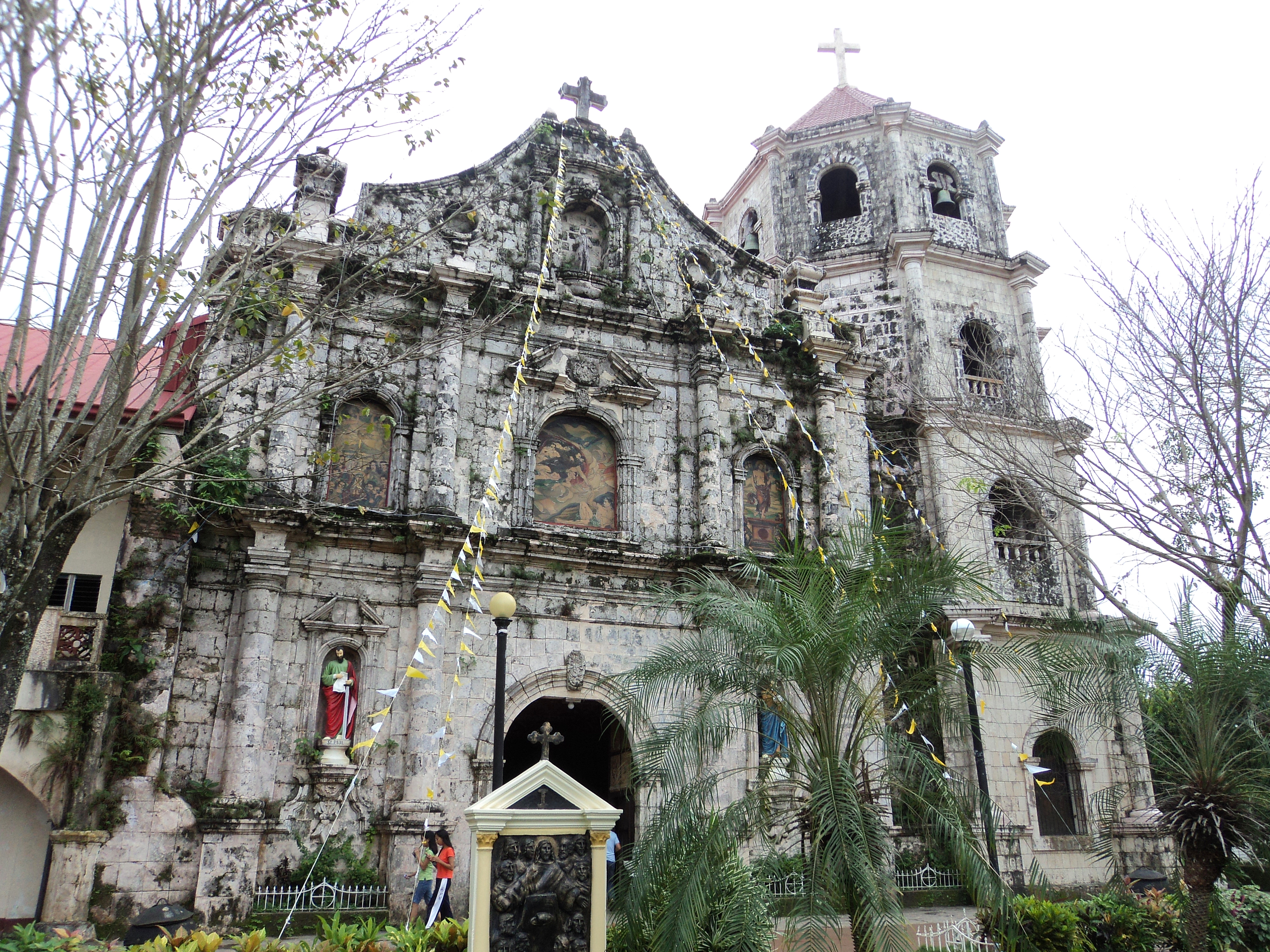 The San Diego de Alcala Cathedral in Gumaca, Quezon